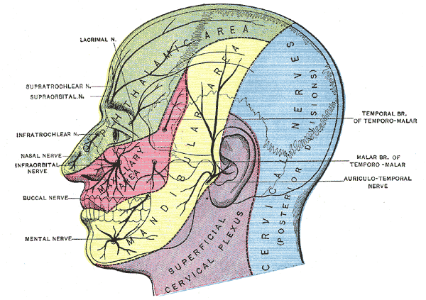 Sensory areas of the head, showing the general distribution of the three divisions of the fifth nerve. (Modified from Testut.)